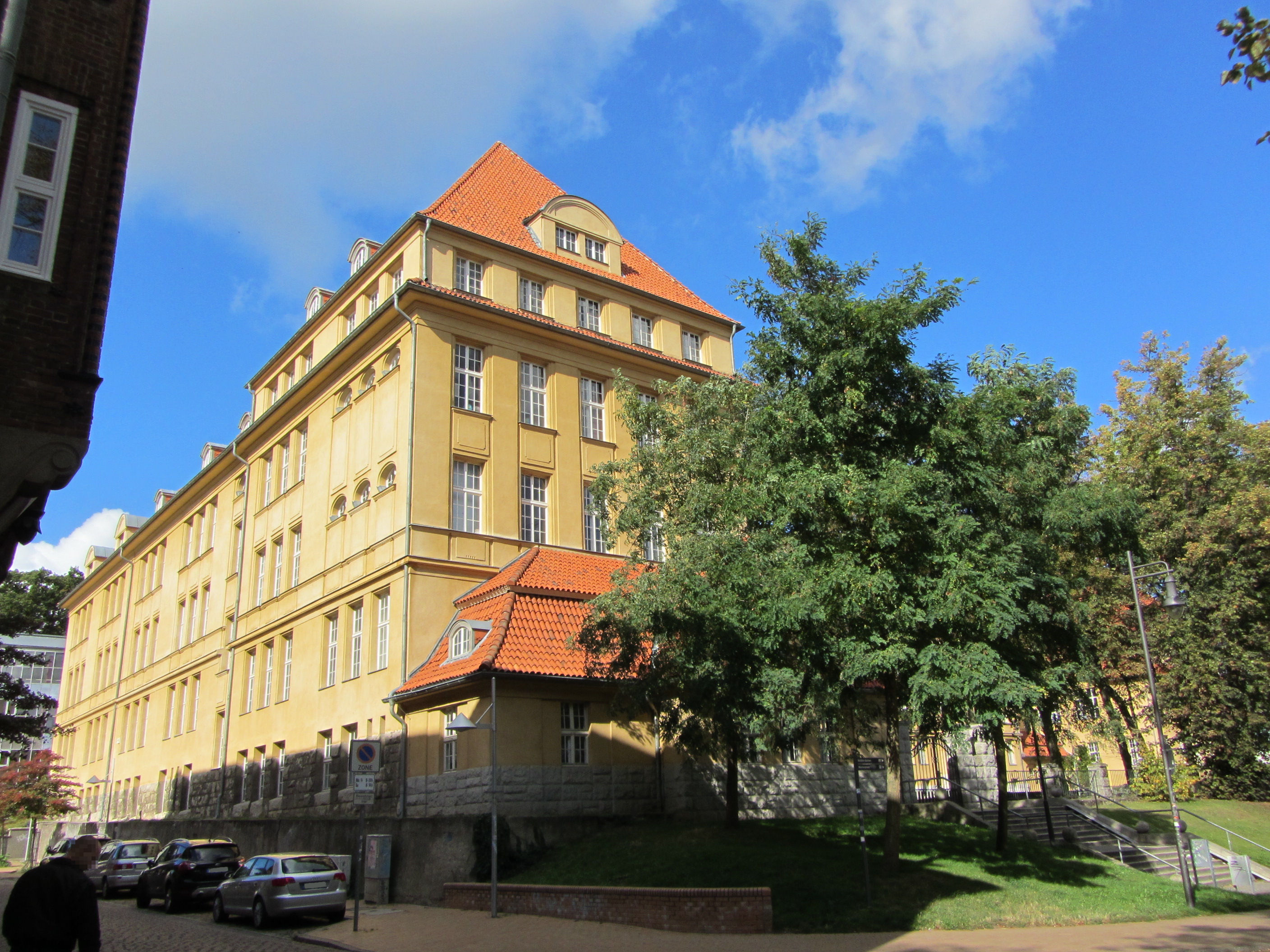 Gymnasium (school) Fridericianum (former Lyzeum) in the Goethestraße 74 in Schwerin, Mecklenburg-Vorpommern, Germany